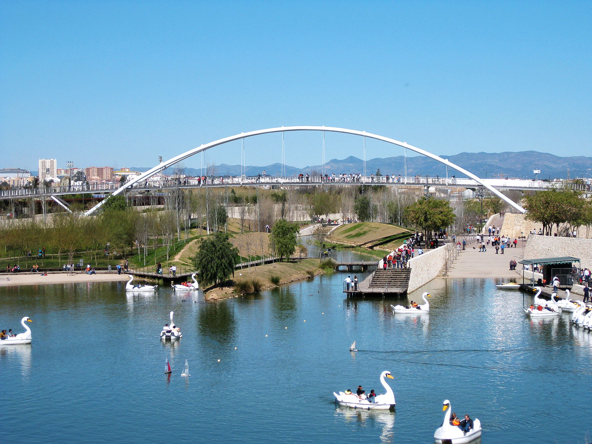 Parc de la Capçalera, Valencia, Spain.